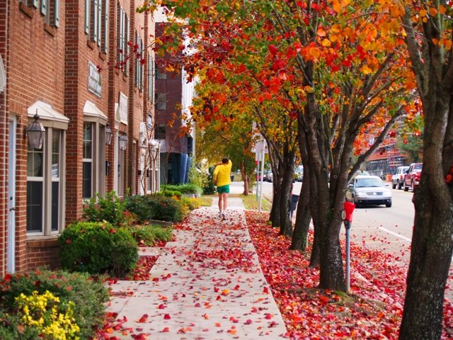 Fall Colors in Downtown Tallahassee